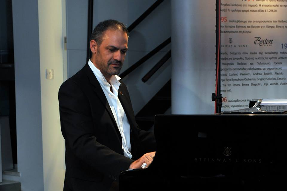 Stavros V. Kyriakides at the piano during "Kyriakides Piano Gallery's Vigintennial Anniversary", November 2013.jpg